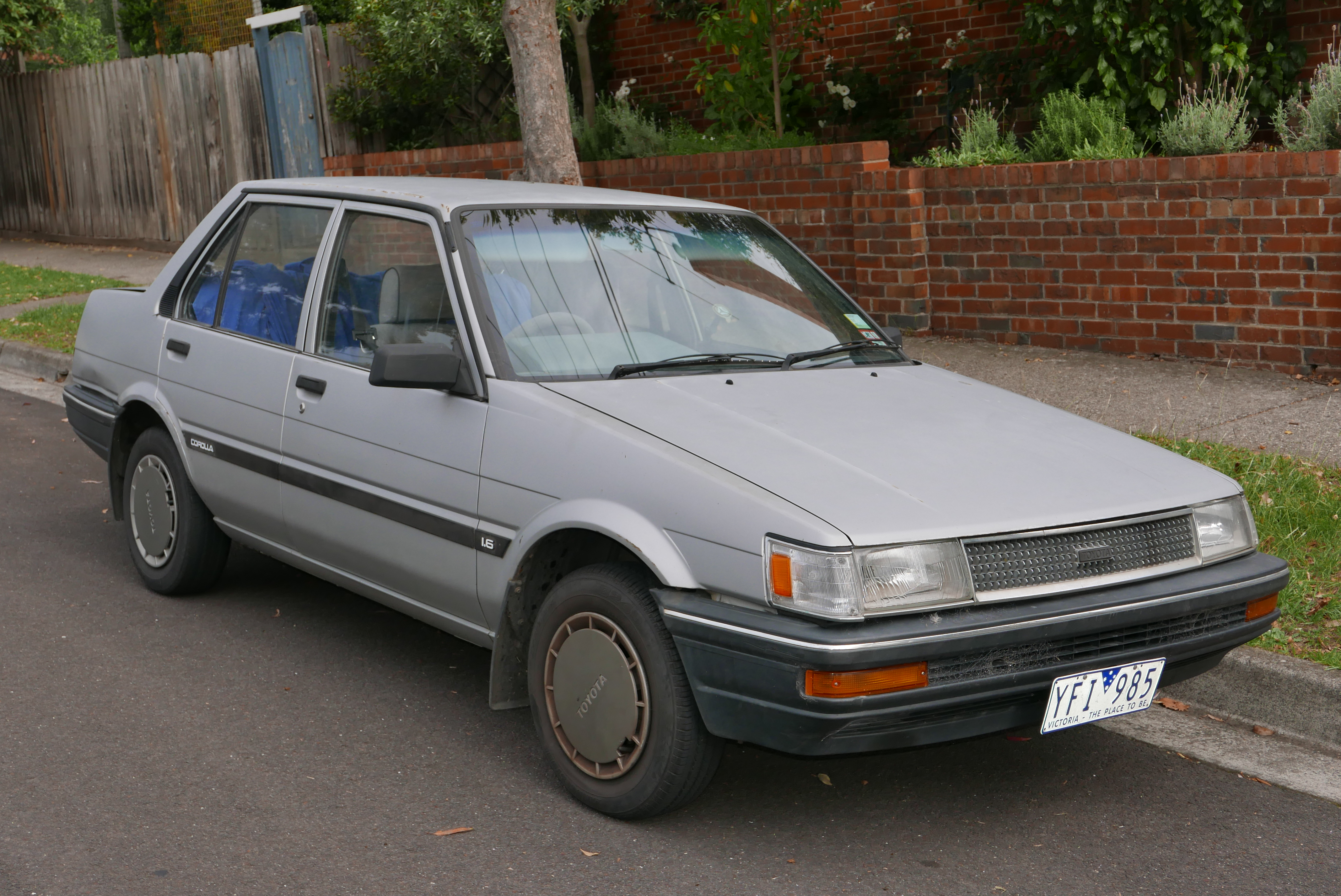 1987 Toyota Corolla (AE82) CS sedan. Photographed in Brunswick West, Victoria, Australia. Vehicle registration enquiry results Jurisdiction Victoria Registration YFI985 Chassis code AE829761314 Engine code 4A9024306 Compliance date 1987-06 Year of manufacture 1987